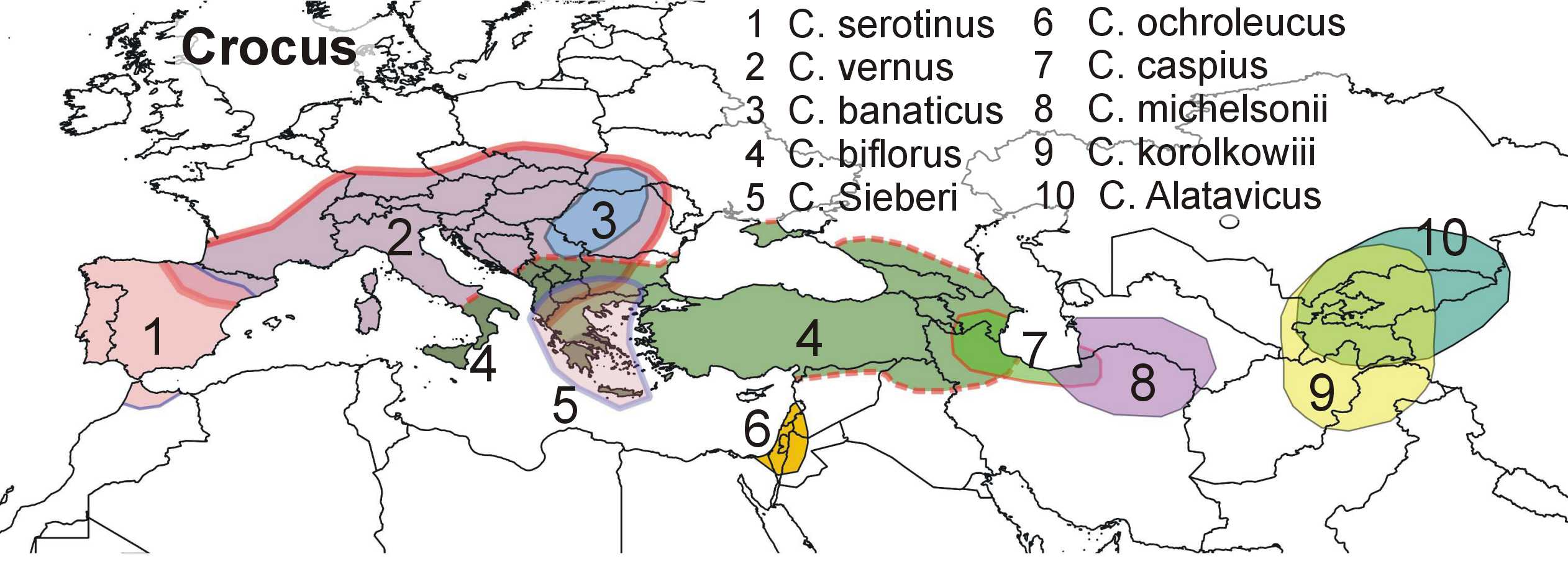 Distribution map of ten species of genus Crocus in europe and asia. (A try according description available in different Wikipedia pages en,de, fr,ru, es.)